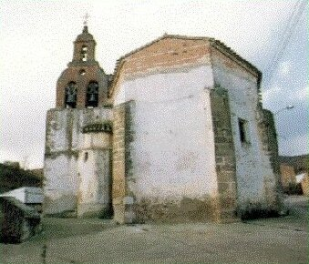 Church of Villarejo in La Rioja (Spain)